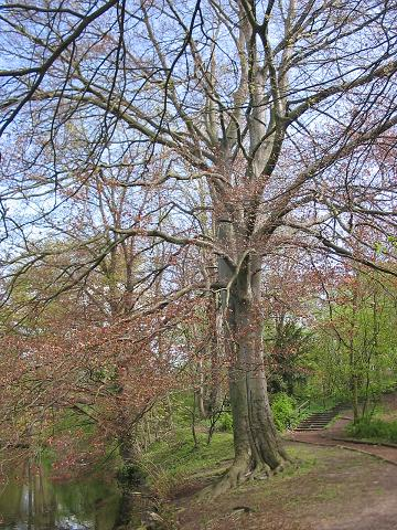 Berlin's lake Koenigssee